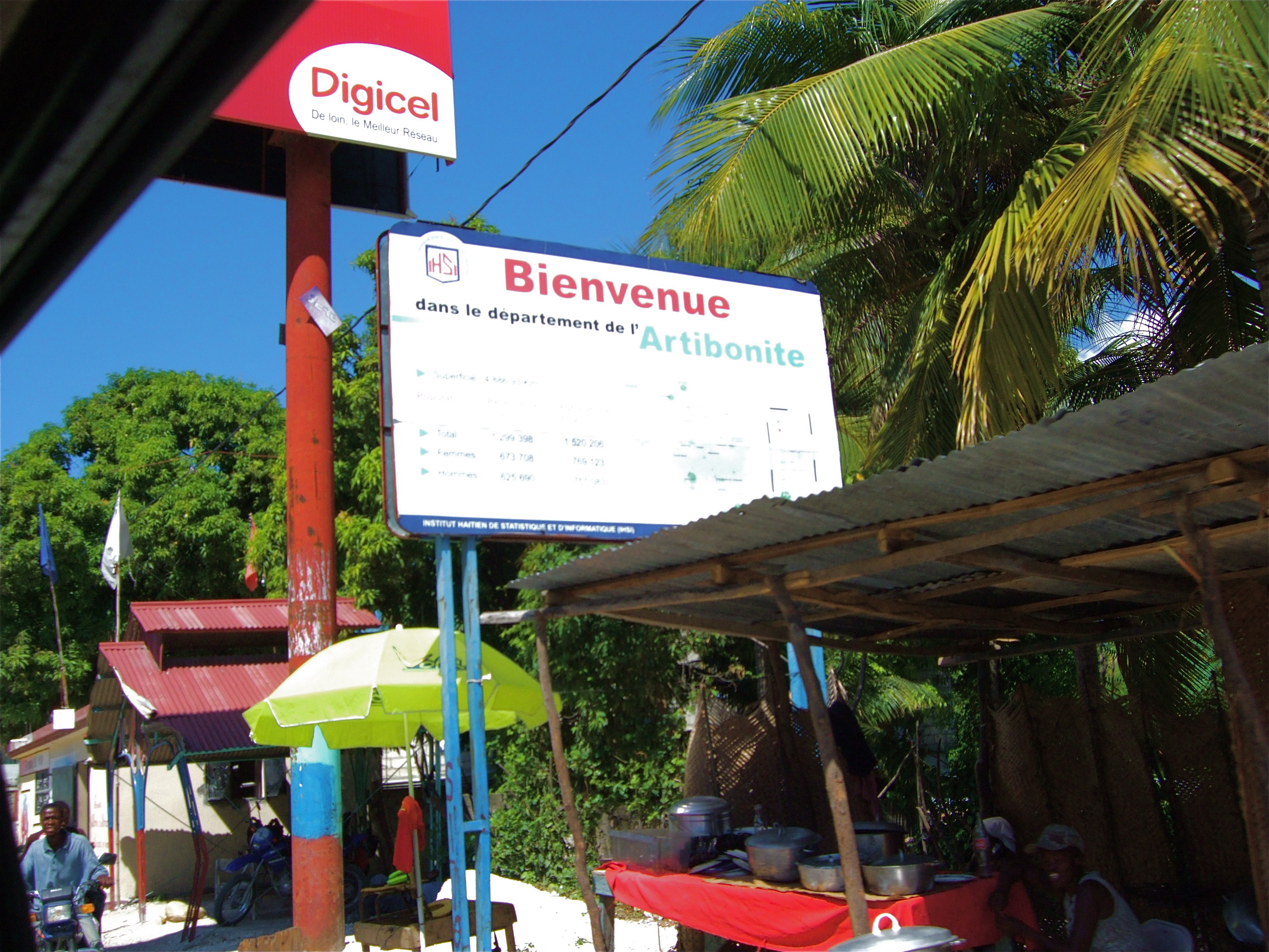 Artibonite Department Welcome Sign in Montrouis, HaitiKreyòl ayisyen : Siy Byenveni nan Depatman Latibonit ki Montrouis, Ayiti